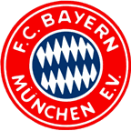 FC Bayern Munich logo 1954-1996